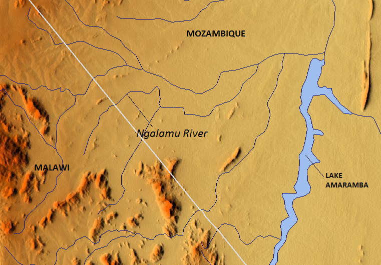 Map of Lugenda River, Mozambique